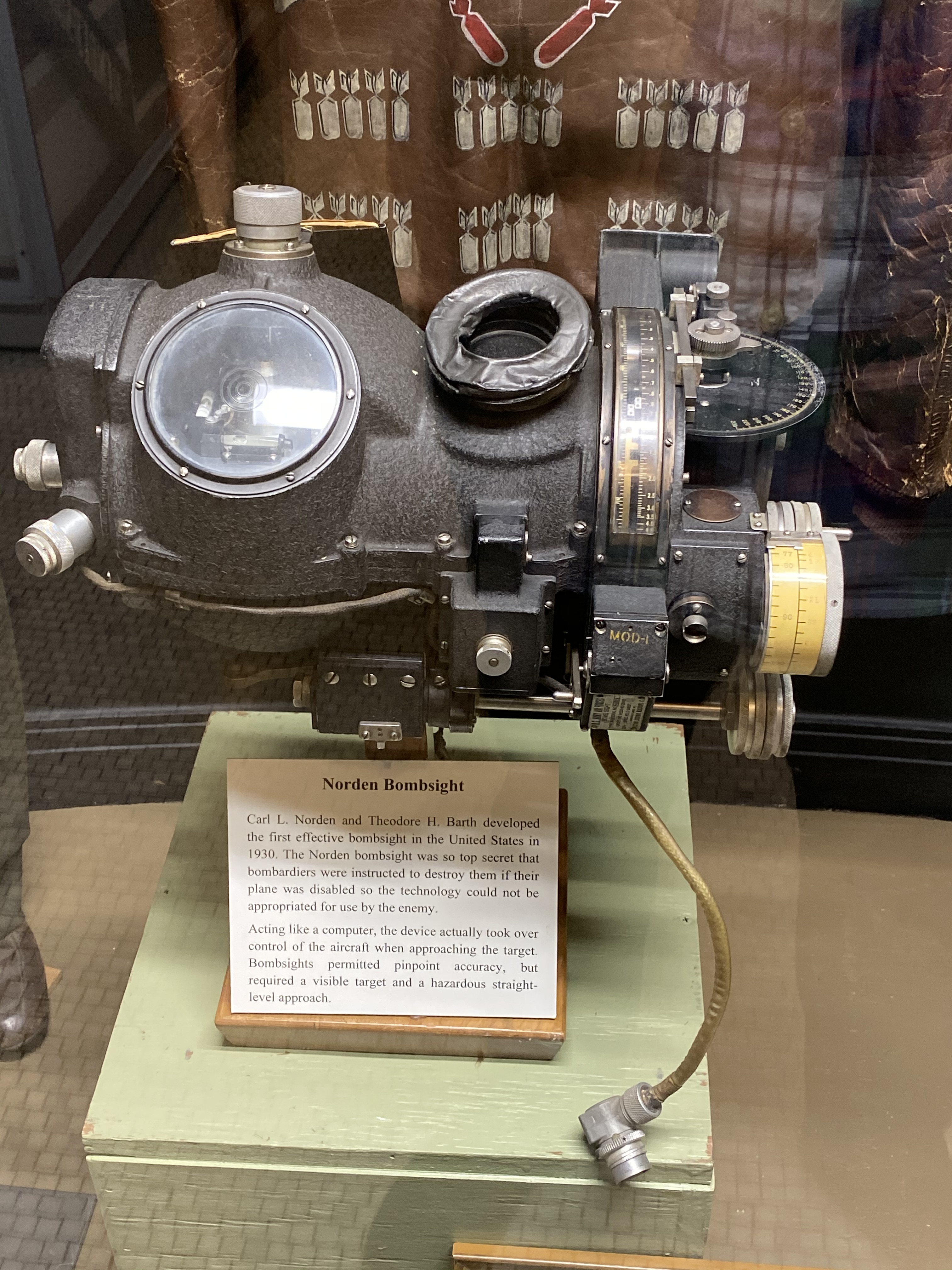 Authentic Norden Bombsight used in strategic bombings during World War II. Located in the Soldiers and Sailors Memorial Hall and Museum in Pittsburgh, Pennsylvania.